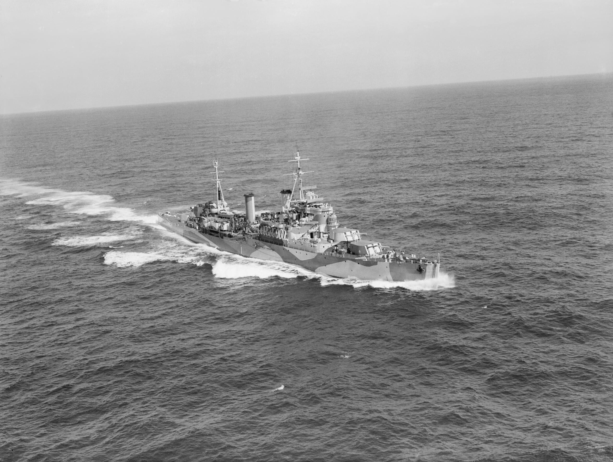 The Royal Navy during the Second World War HMS GAMBIA underway at sea.